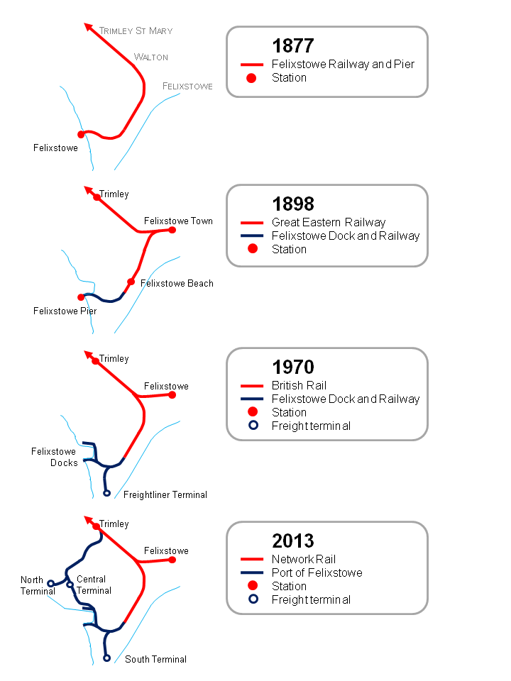 The development of railways in Felixstowe, Suffolk, England. It shows them (from top to bottom) at the time of the opening of the Felixstowe Railway and Pier Company's line (1877); opening of Felixstowe Town station by the Great Eastern Railway (1898); reopening of the North Curve by British Rail (1970); and the Port of Felixstowe's line to Trimley (1987) and new North rail terminal (2013).